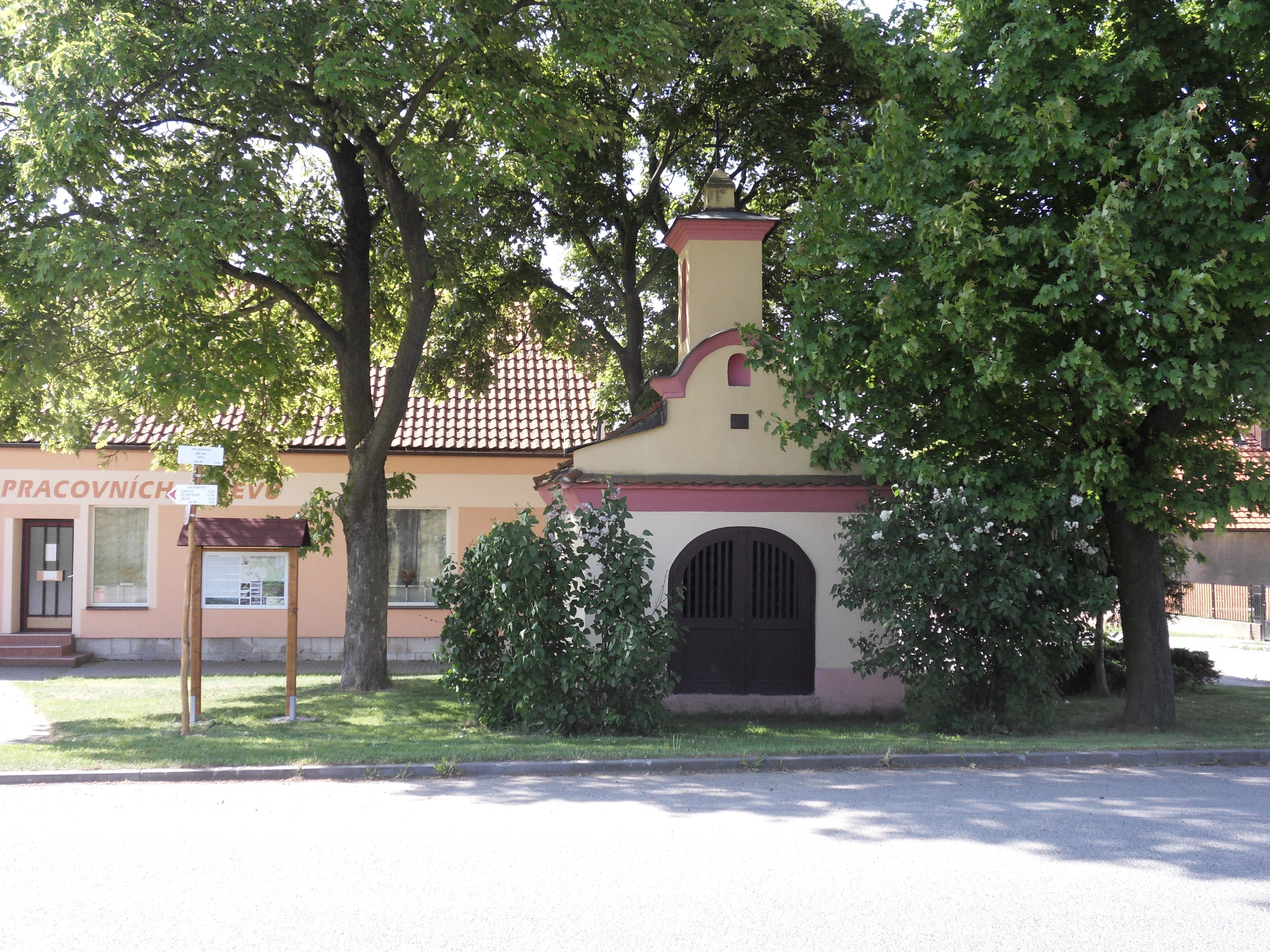 Líně (village in Plzeň-sever District, Czech Republic) - the village chapel